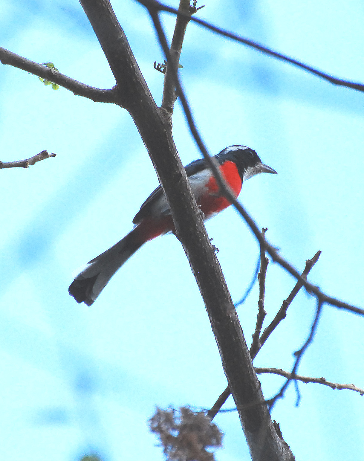 Red-breasted Chat at Llano de Horno, Mexico, 080330. Granatellus venustus.